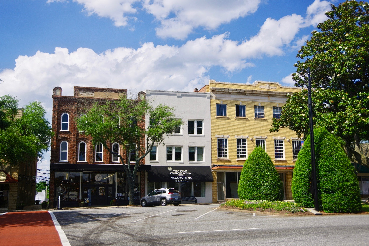 Businesses along Main Street (US 221A/US74Bus) in Forest City, North Carolina, United States.